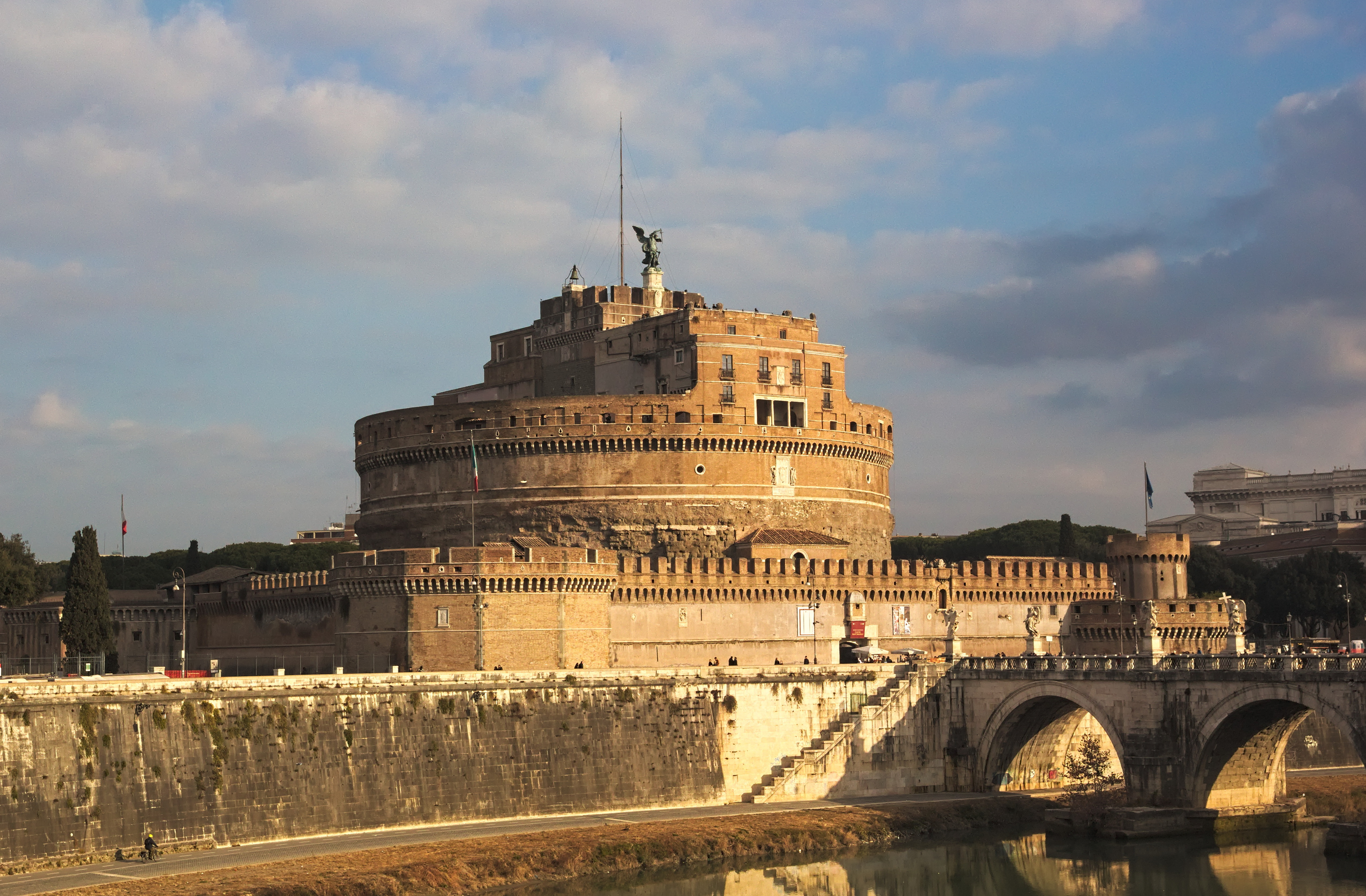 Castel Sant'Angelo, in Roma, Italy.